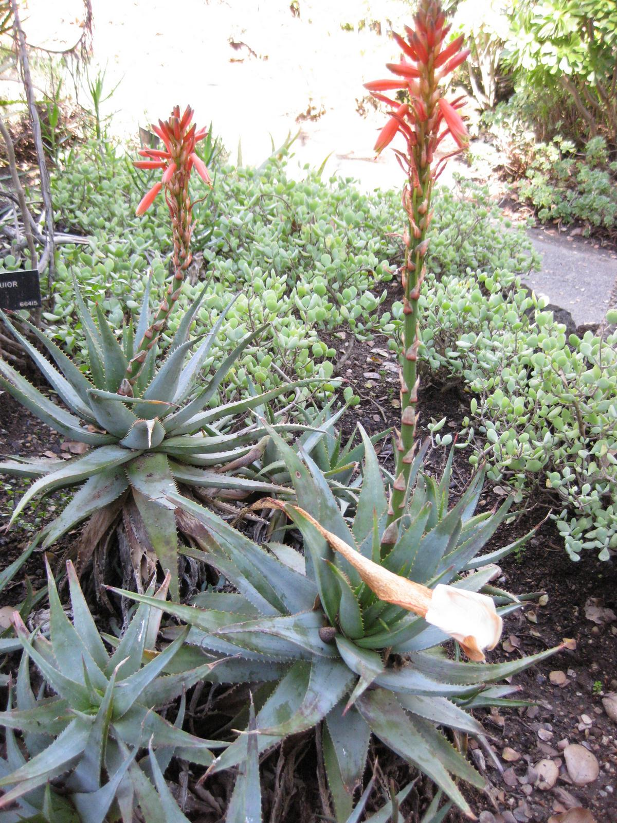 Photographed at Huntington Gardens (Los Angeles, California) in March